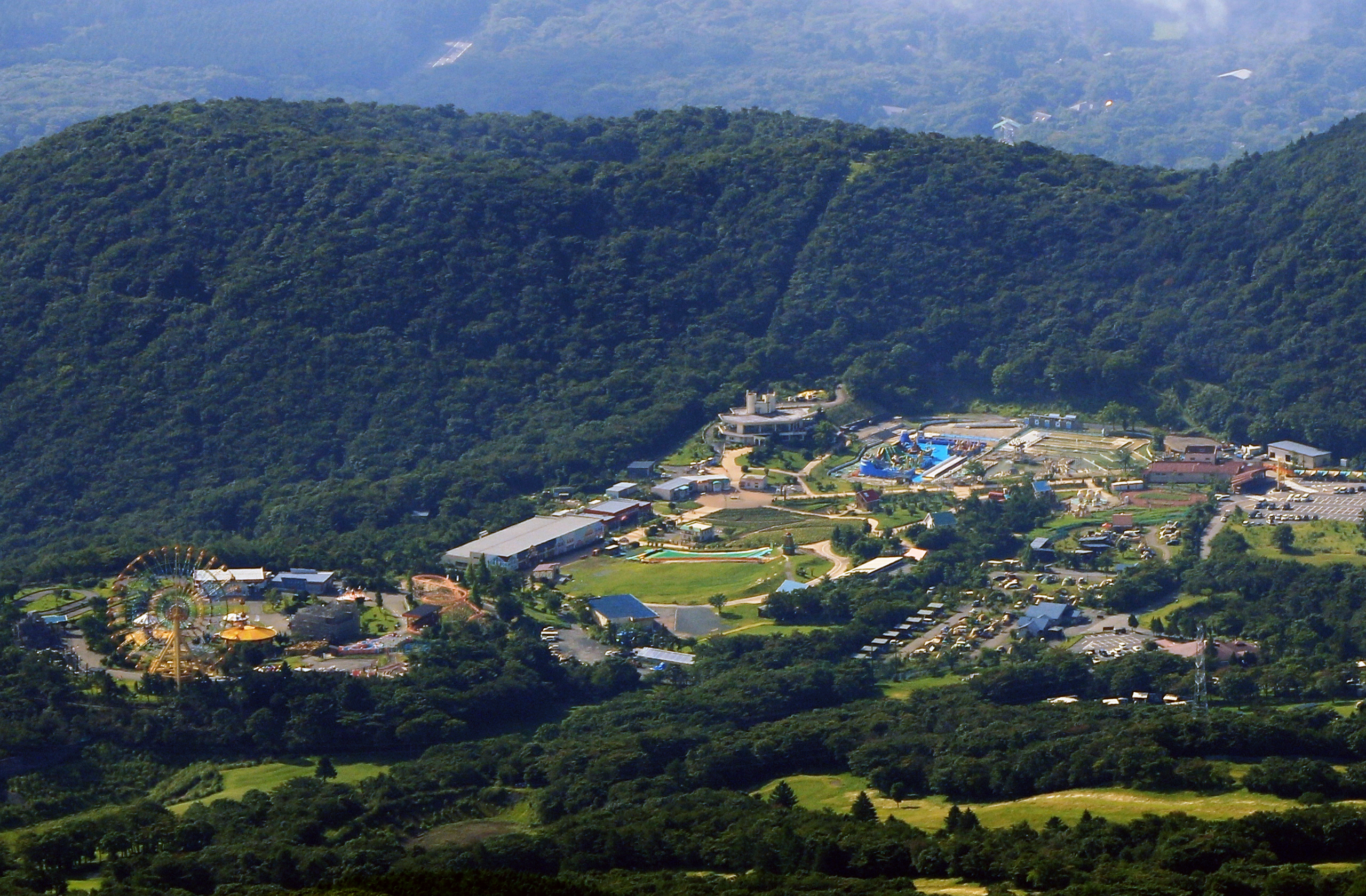 Grinpa as seen from Gotemba Rotue of Mount Fuji in Susono, Shizuoka Prefecture, Japan. This is a retouched picture, which means that it has been digitally altered from its original version. Modifications: Color adjustment. The original can be viewed here: GrinPa.jpg. Modifications made by Batholith.